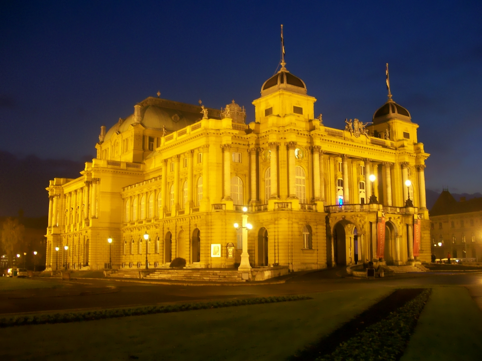 Croatian National Theater in Zagreb, Croatia